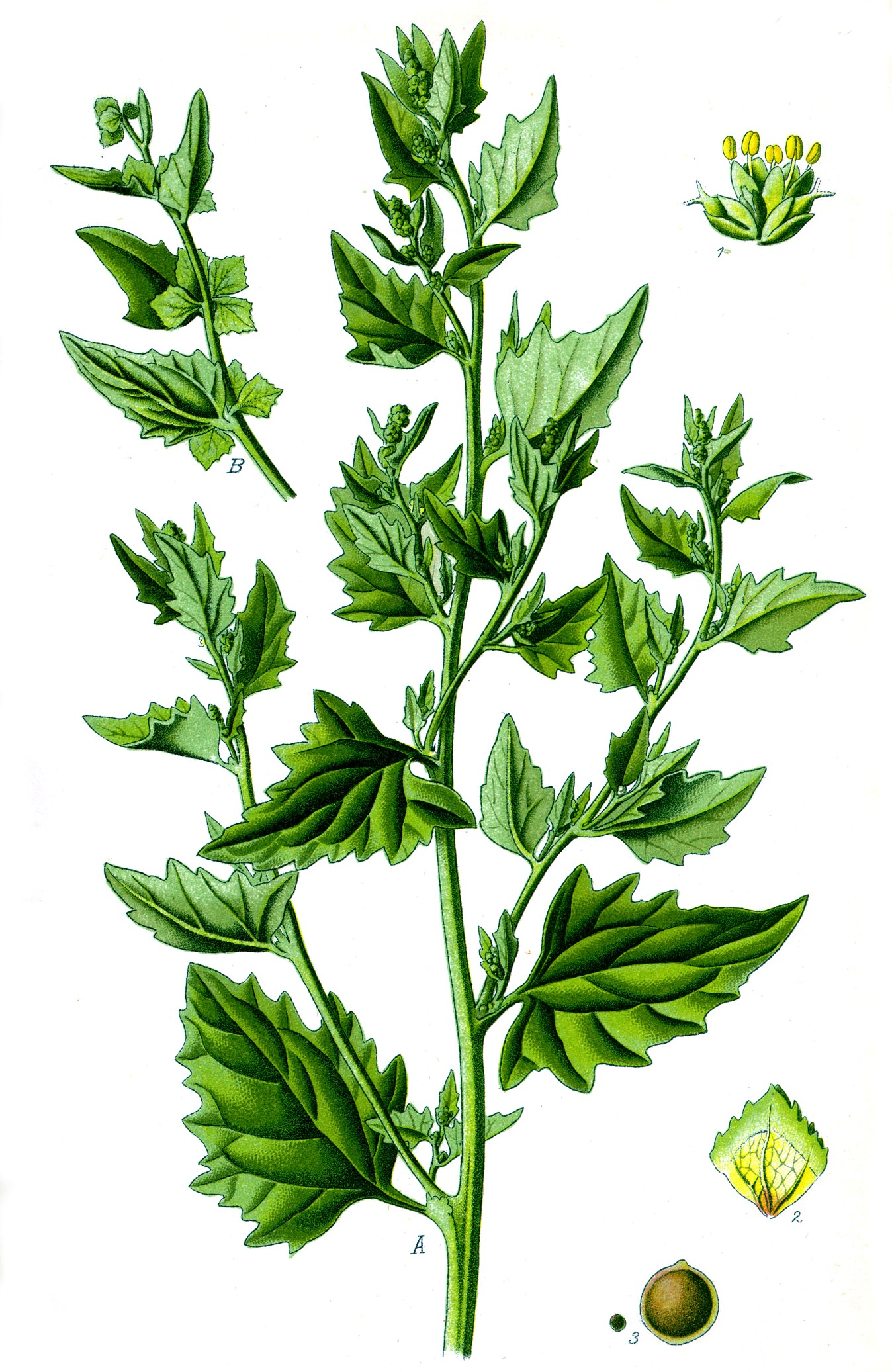 Name Atriplex rosea ;Family:Chenopodiaceae Original book source: Prof. Dr. Otto Wilhelm Thomé Flora von Deutschland, Österreich und der Schweiz 1885, Gera, Germany Permission granted to use under GFDL by Kurt Stueber